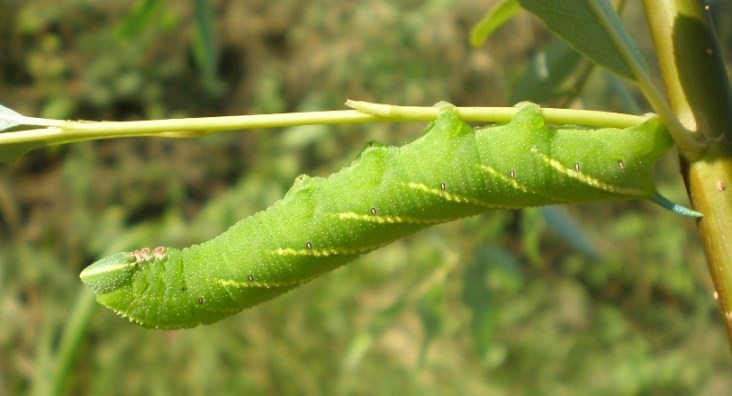 Near Tàrrega, Lleida, Catalonia.